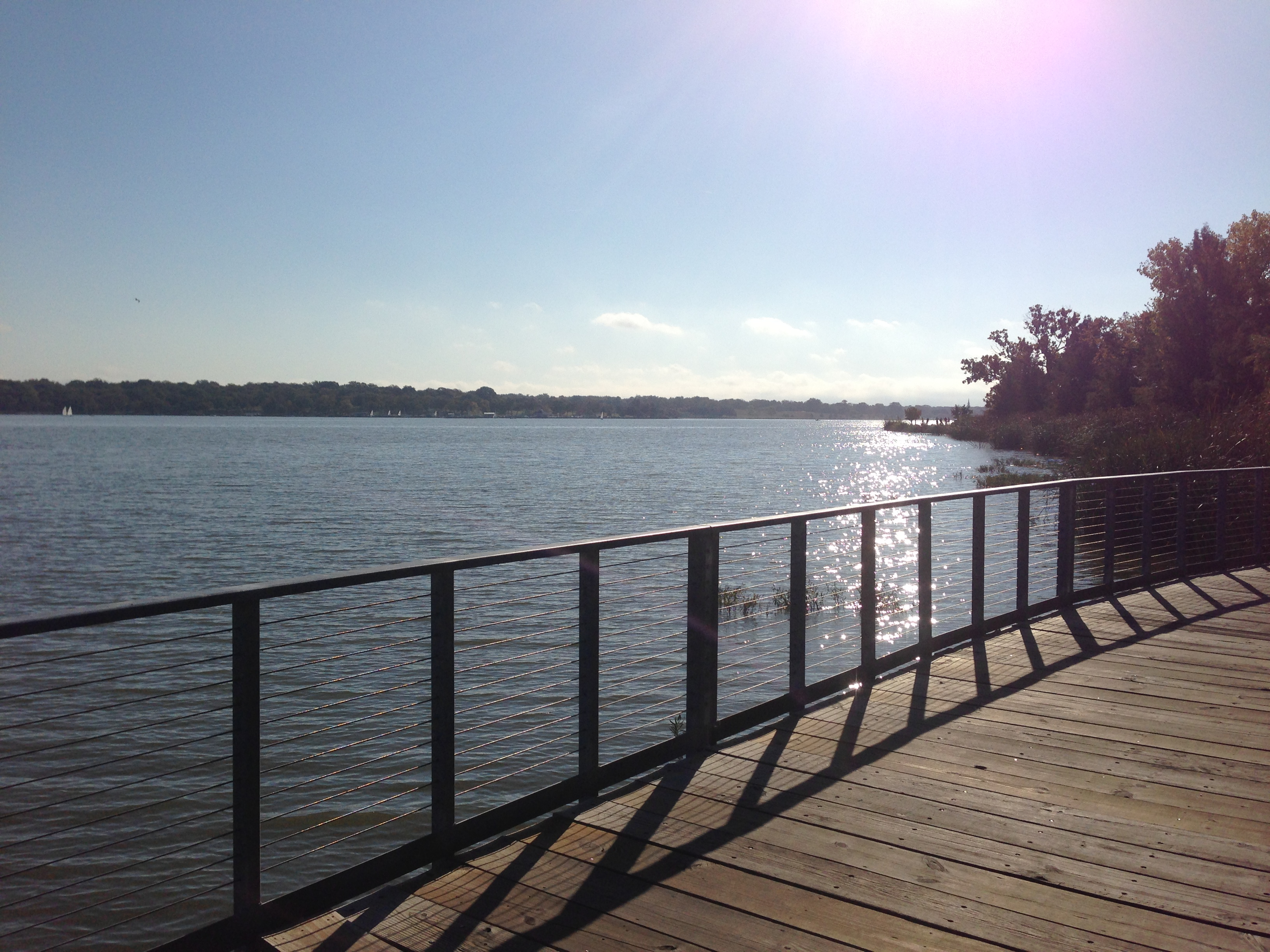 White Rock Lake during the fall